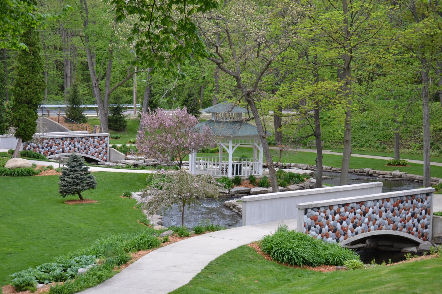 Gardens at the Grand Rapids Home for Veterans